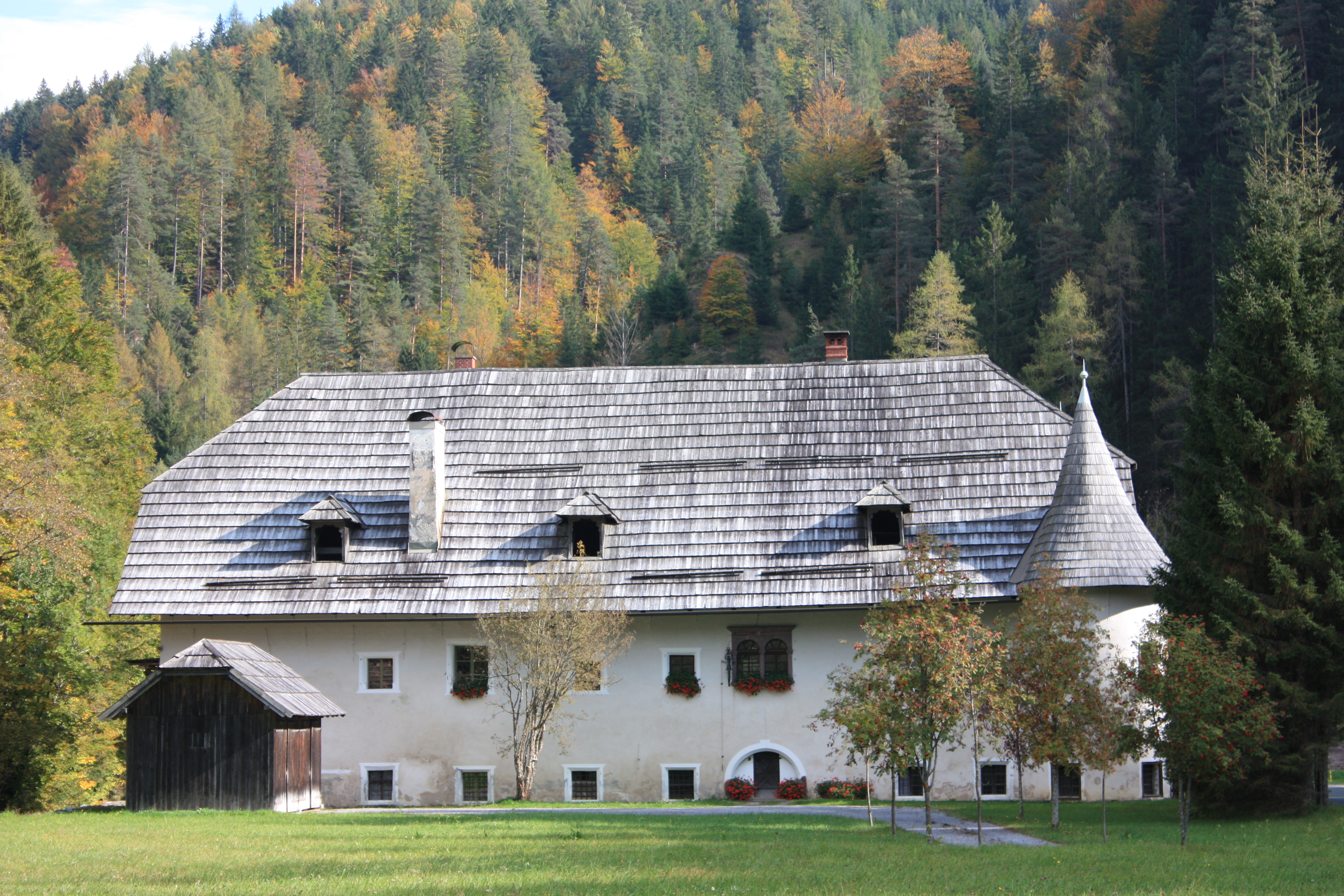 Kreuzen Castle Locality: Kreuzen Community:Paternion